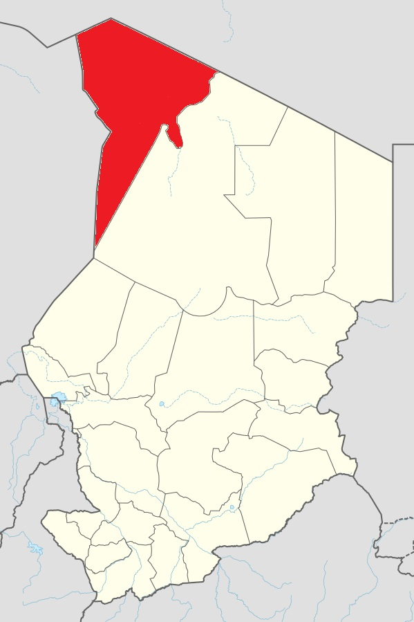 Map of the Tibetsi Region in Chad